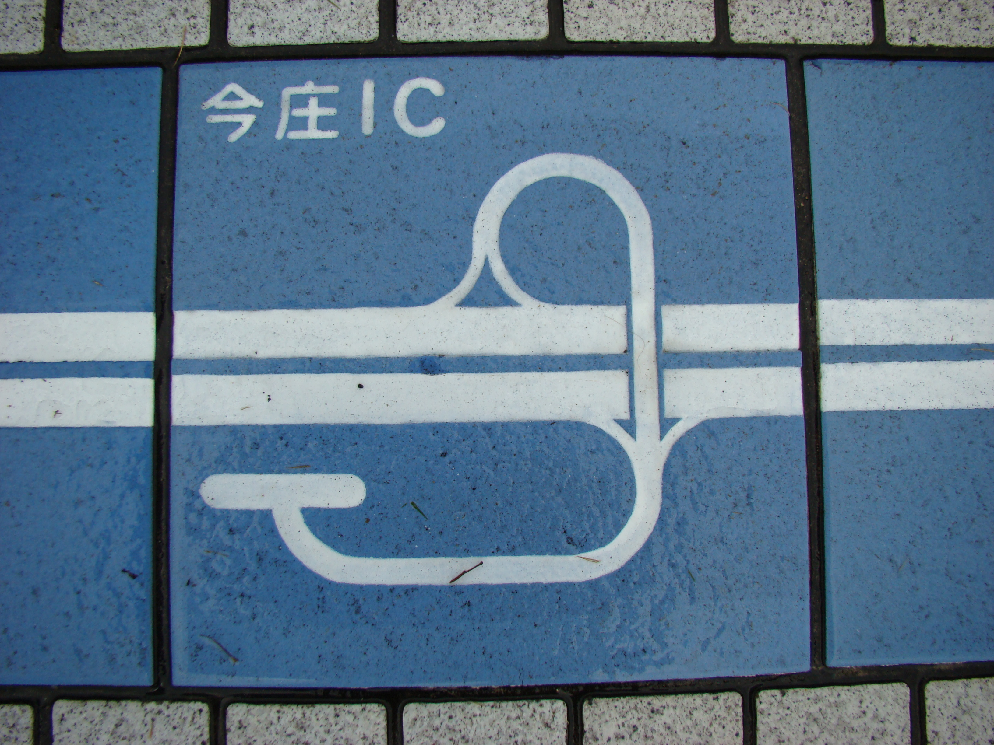 The tile which designed a shape of the Imajo Interchange（Hokuriku Expressway）（There is this tile in Hokuriku Expressway Nadachi-Tanihama Service Area.）. Place - Chayagahara,Joetsu City,Niigata Prefecture,Japan Date - August 9, 2009 Format - JPEG, 3264x2448pixel, 24bit colors. Photographer - NALA Wiki (talk)